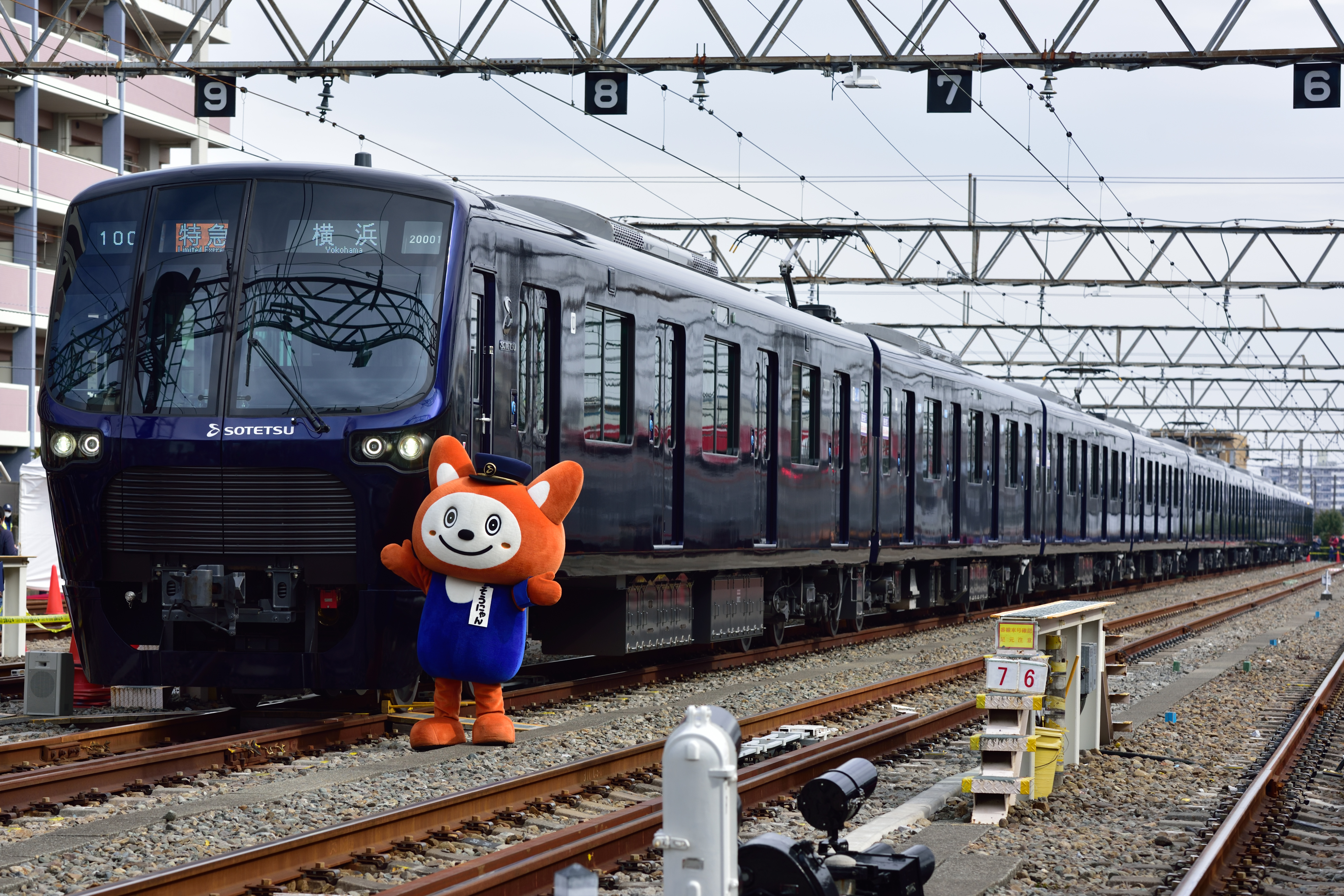 Sotetsu 20000 series EMU set 20101 on display at a special preview event held in the stabling sidings next to Sagami-Otsuka Station on the day before entering revenue service